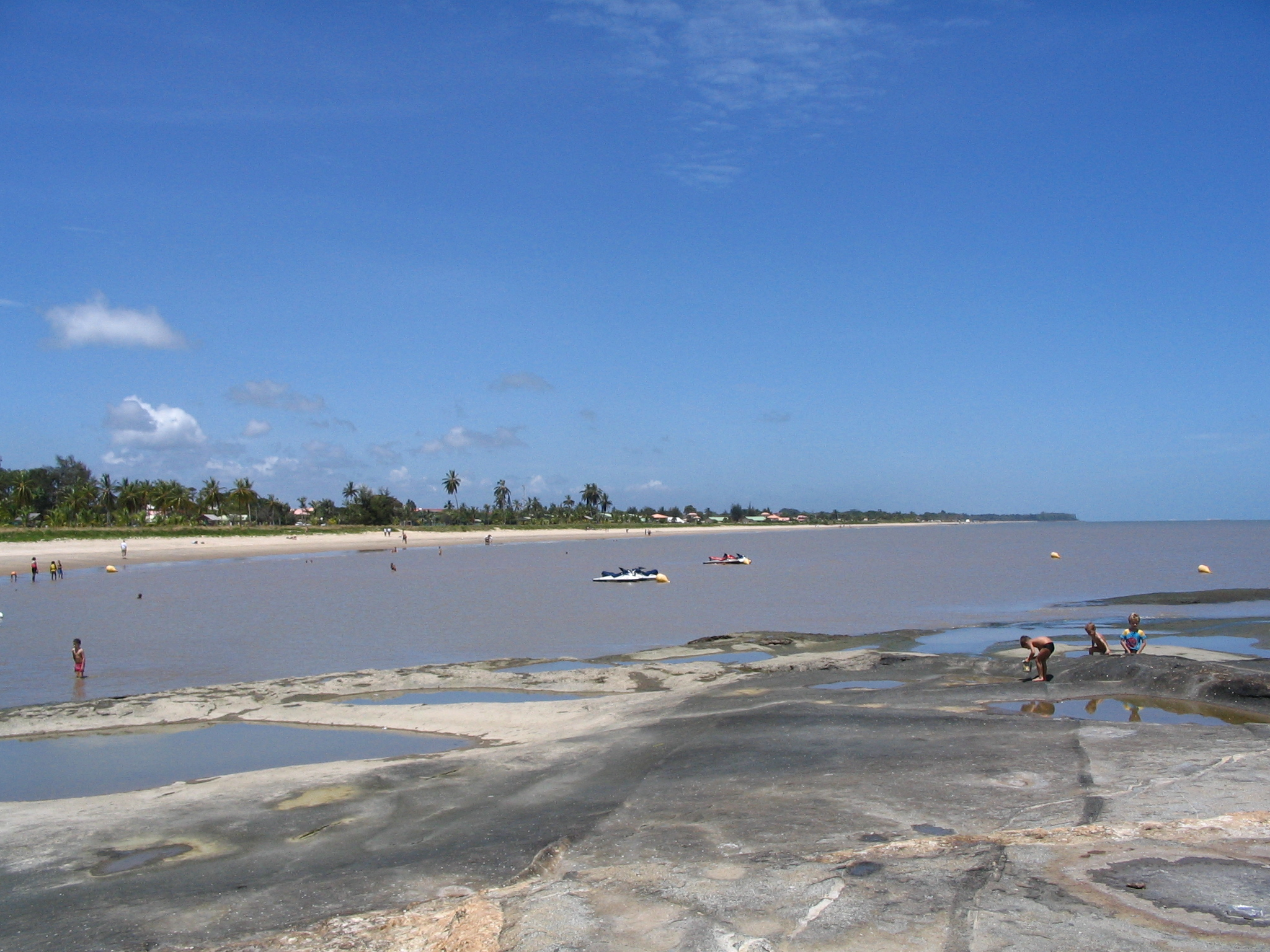 French Guiana. Kourou's long, sandy beach as seen from a rocky outcrop next to the smaller Pim-Poum Beach. Taken by Arria Belli in October 2005.